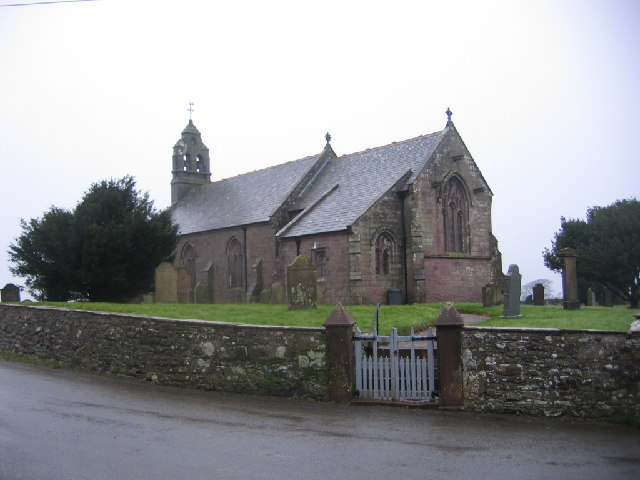 Lamplugh Church. The church lights were on and there were a lot of vehicles outside indicating a Saturday wedding so we were lucky to get this photo without cars.